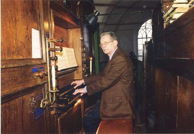 Henk Bouwman (organ player)